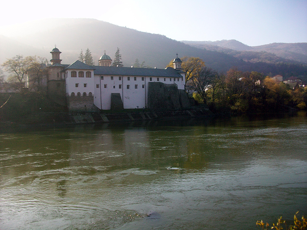 Seen from the other bank of Olt river